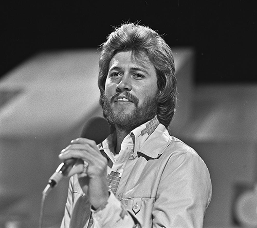 Barry Gibb (Bee Gees) in AVRO's TopPop (Dutch television show) in 1973